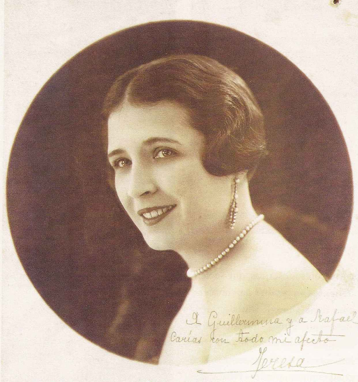 Photograph of Teresa de la Parra in the 1920's.